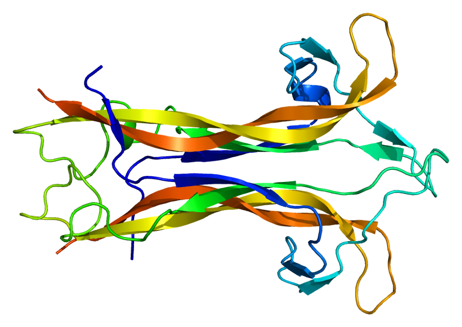 Structure of the BDNF protein. Based on PyMOL rendering of PDB 1bnd.